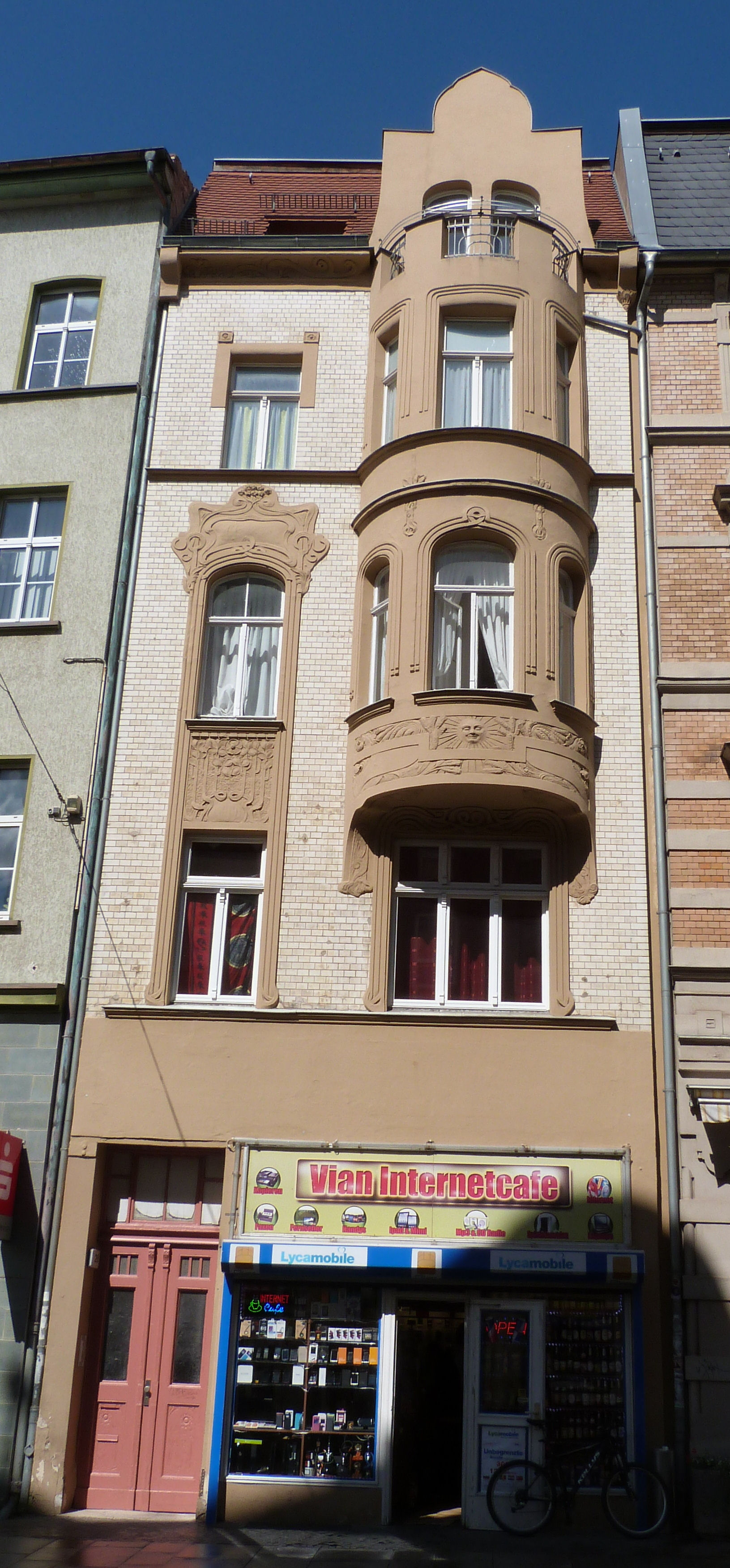 House No. 28, Leipziger Strasse in Halle (Saale)